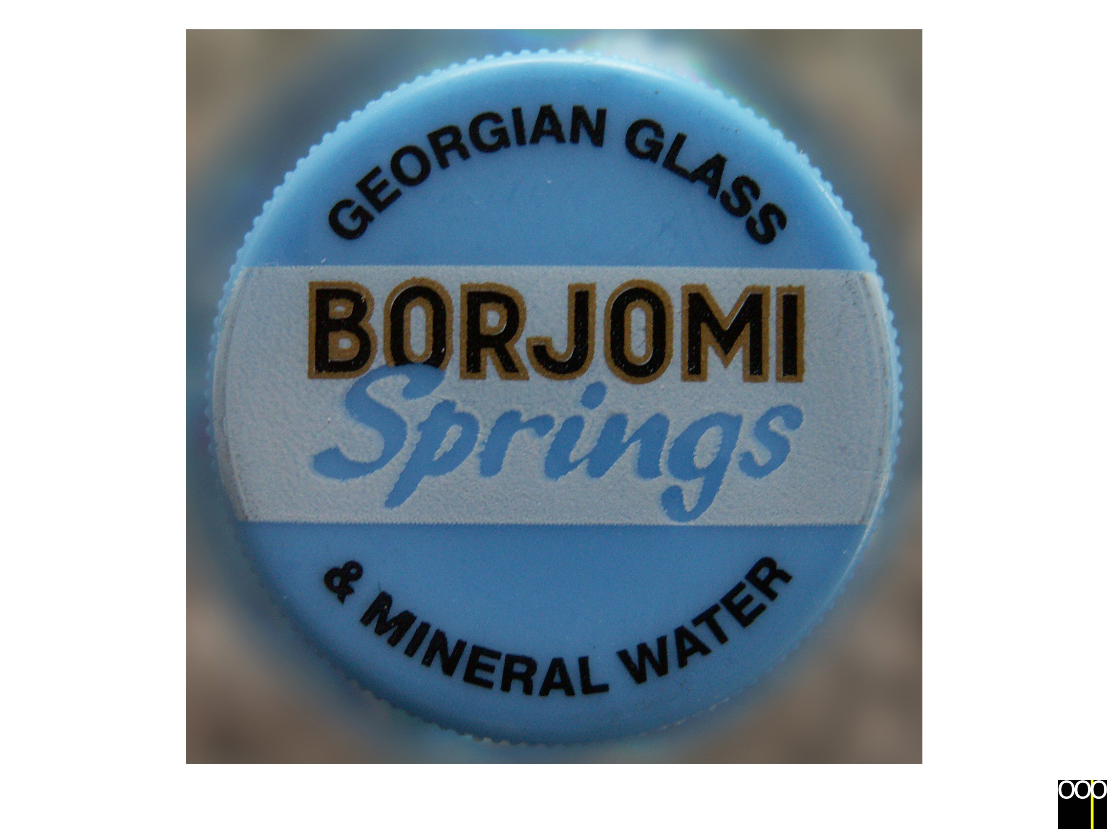 The cap of a bottle of water from the Borjomi Springs in Georgia (Eastern Europe). Borjomi Blue: plain water, very nice plain water! February 2005.